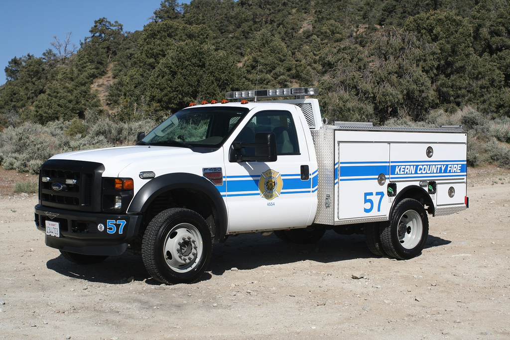 A Type 4 Patrol vehicle of the Kern County Fire Department.